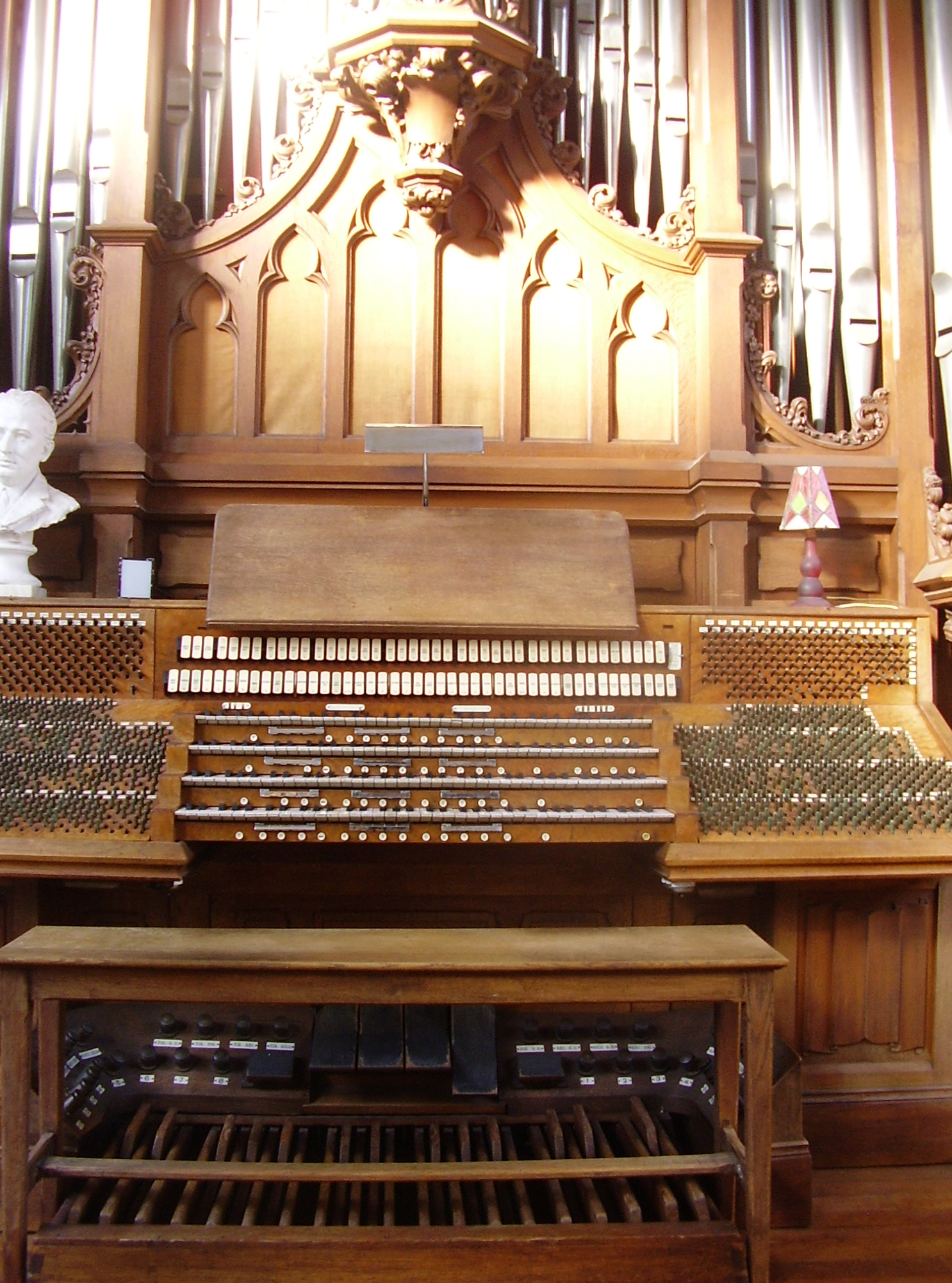 The organ of Marcel Dupré, in his house in Meudon